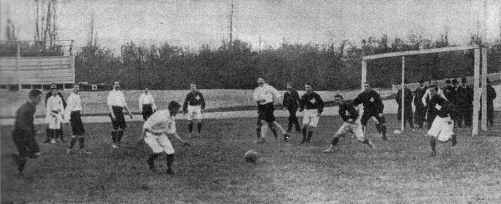 Switzerland's first international soccer match, played 1905 in Paris against France.